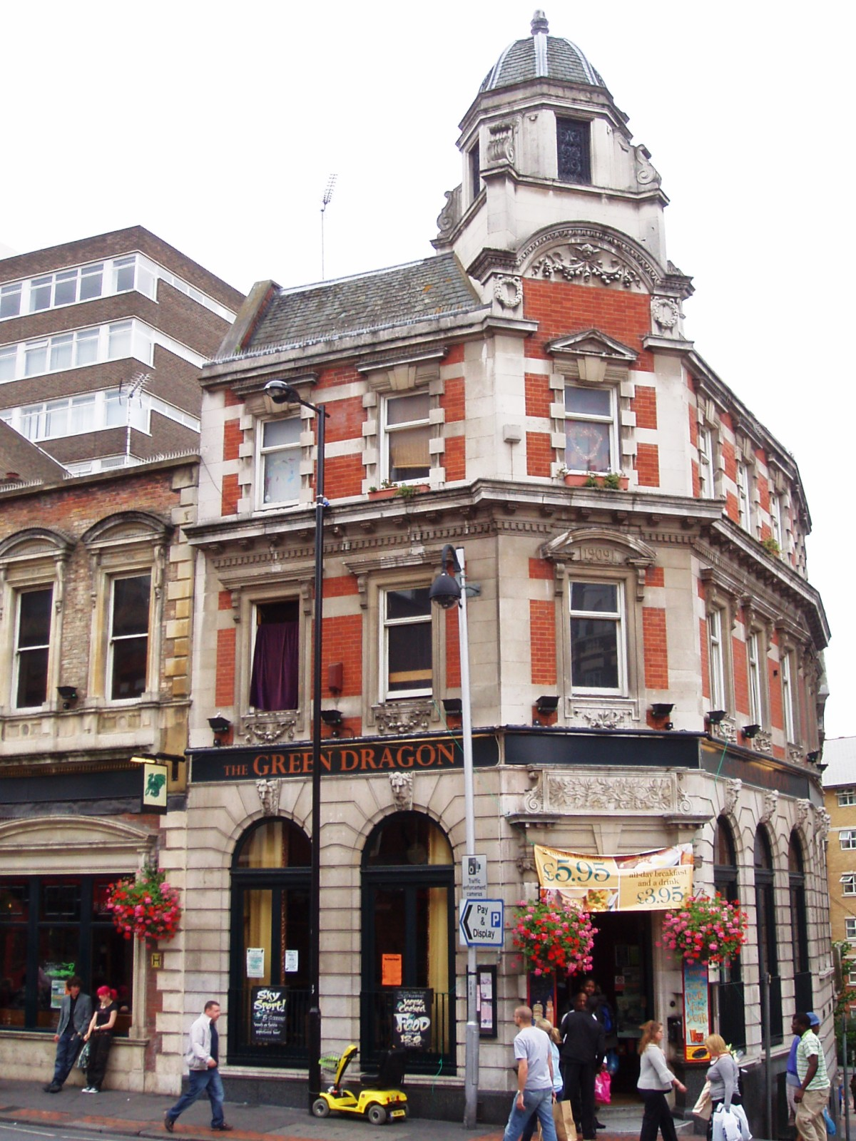 Striking pub in a former bank branch overlooking Surrey Street market. The original Green Dragon was a couple of doors along at 64 High Street until demolished around the 1950s. (It was in the Good Beer Guide in 2000/1 as the Hog's Head.) Address: 58-60 High Street. Former Name(s): Hog's Head. Owner: Stonegate Pub Company (website); Whitbread/Laurel Pub Co [Hogshead] (former). Links: Randomness Guide to London Fancyapint Pubs Galore Beer in the Evening Dead Pubs (history)